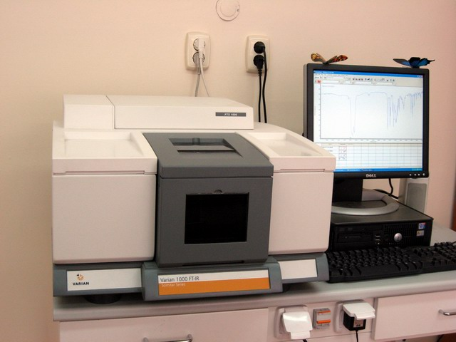 FT-IR (Infrared) spectrometer Varian Scimitar 1000 FT-IR